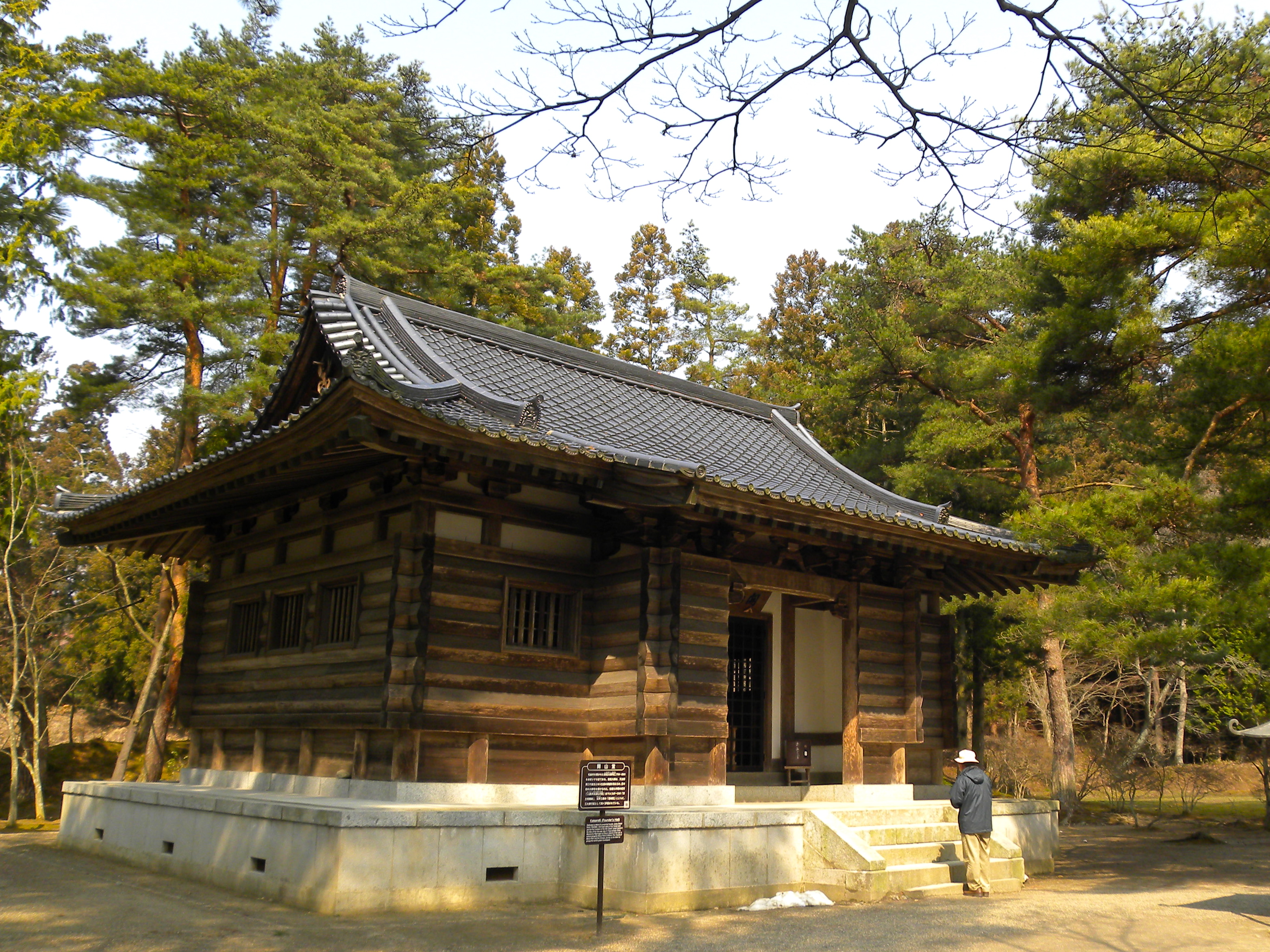 Kaisandō Hall of Mōtsū-ji temple, Hiraizumi, Japan.